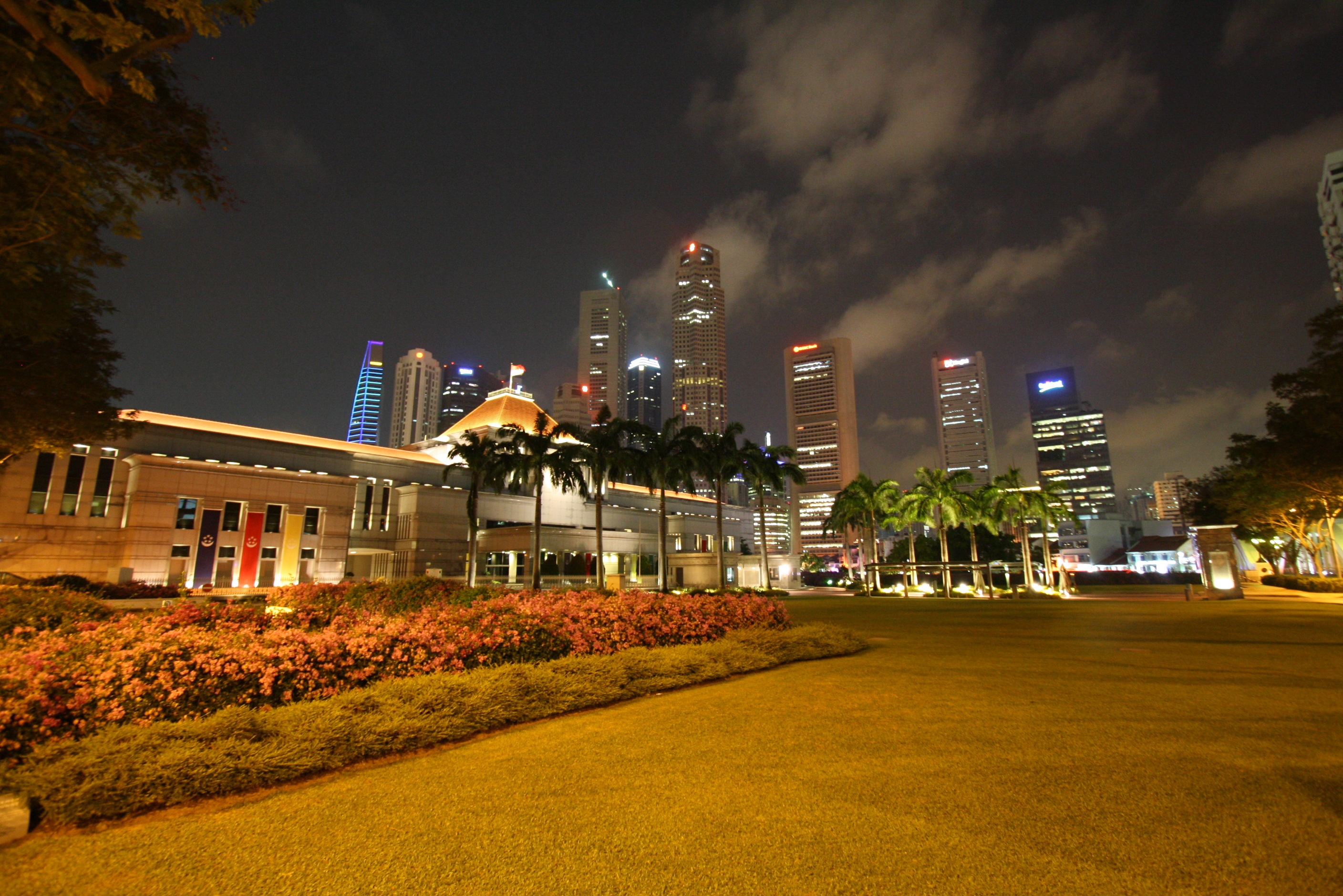 Parliament House, Singapore, with skyscrapers of the Central Business District in the background.